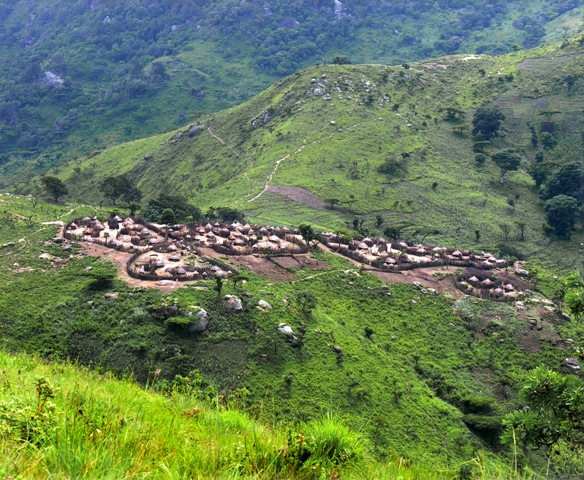 village of the Ik people in northern Uganda, taken in 2005